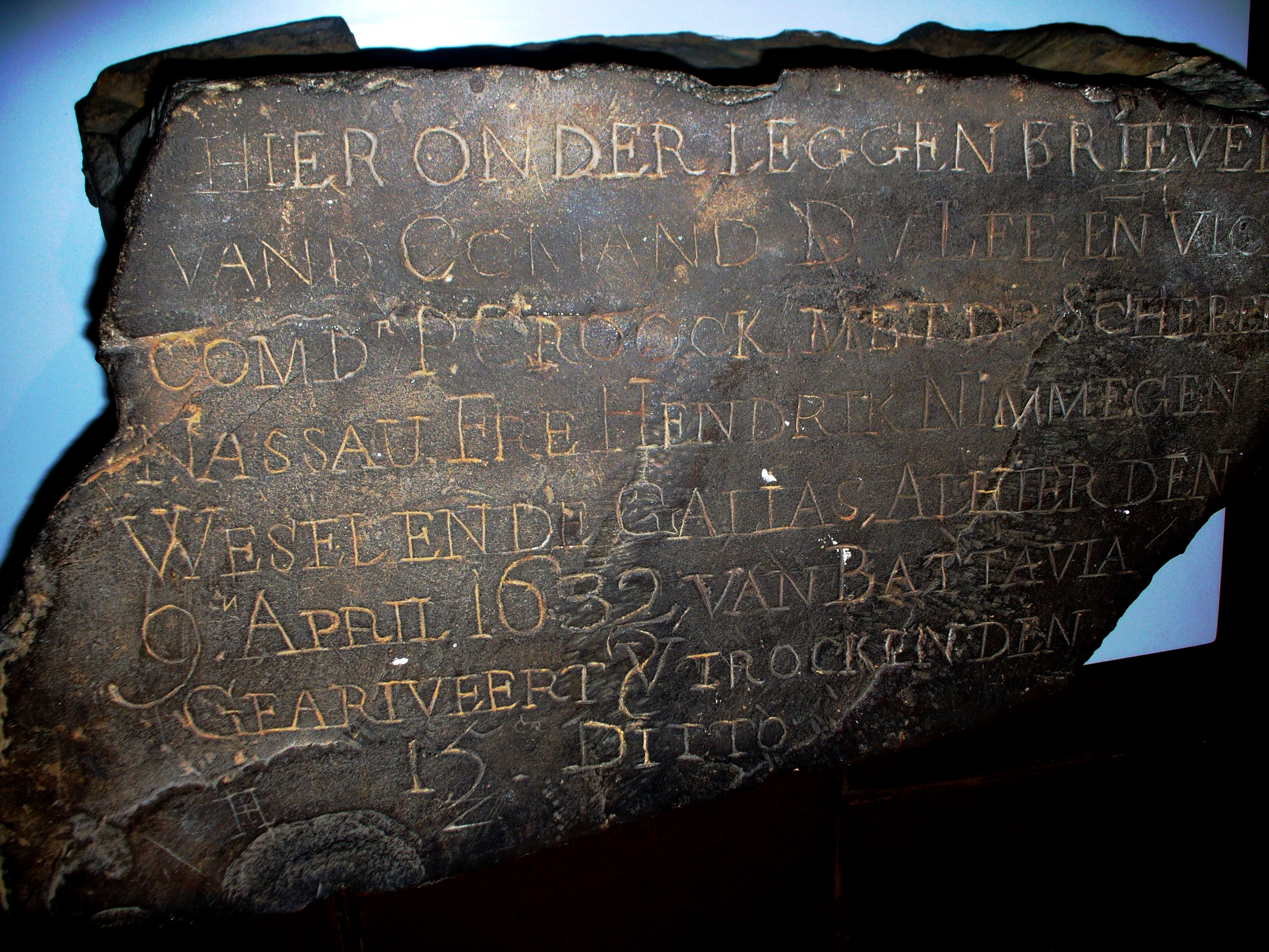 The earliest known Dutch Post office stone 1632. The inscription translated reads: "Hereunder lie letters from the commander Dirk van der Lee and vice-commander P Crook with the ships Nassau, Frederik Hendrik, Nimegen Wessel and the galliots. Arrived here 9 April 1632 from Batavia and departed 15th ditto."